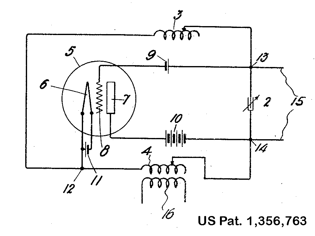 Drawing from the US Patent 1,356,763, Inventor Ralph V.L. Harley